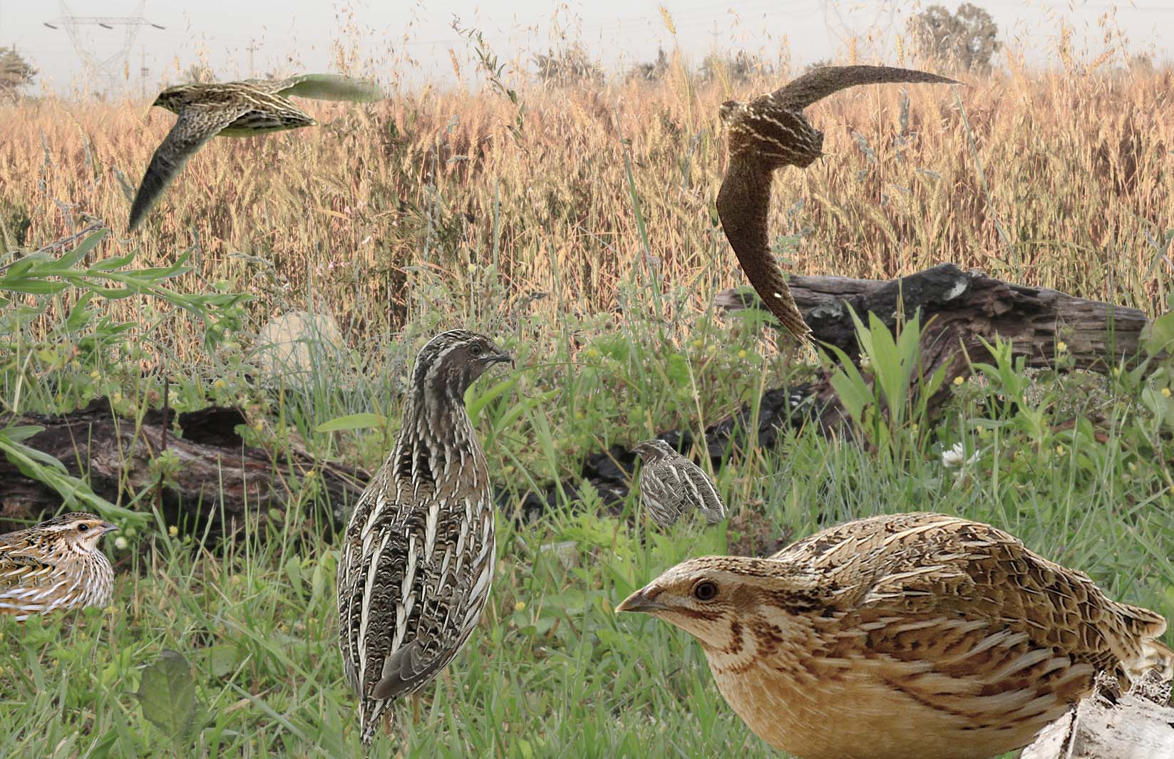 Quail from the Crossley ID Guide Britain and Ireland